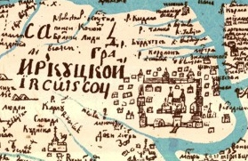 Ancient schematic map by S. U. Remizov dated 1699–1701 of Irkutsk city and the nearby territories. Scanned image, [1]